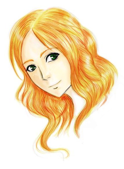 Fanart of Lily Evans.